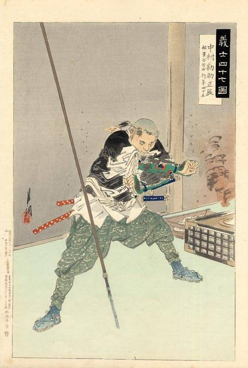 Ronin are masterless samurai. Chushingura is the true story of 47 samurai who became masterless in 1701, after their lord had been forced to commit ritual suicide (seppuku) for assaulting a court official who had insulted him. They avenged him by killing the court official after patiently planning for over a year. They were themselves then forced to commit seppuku.